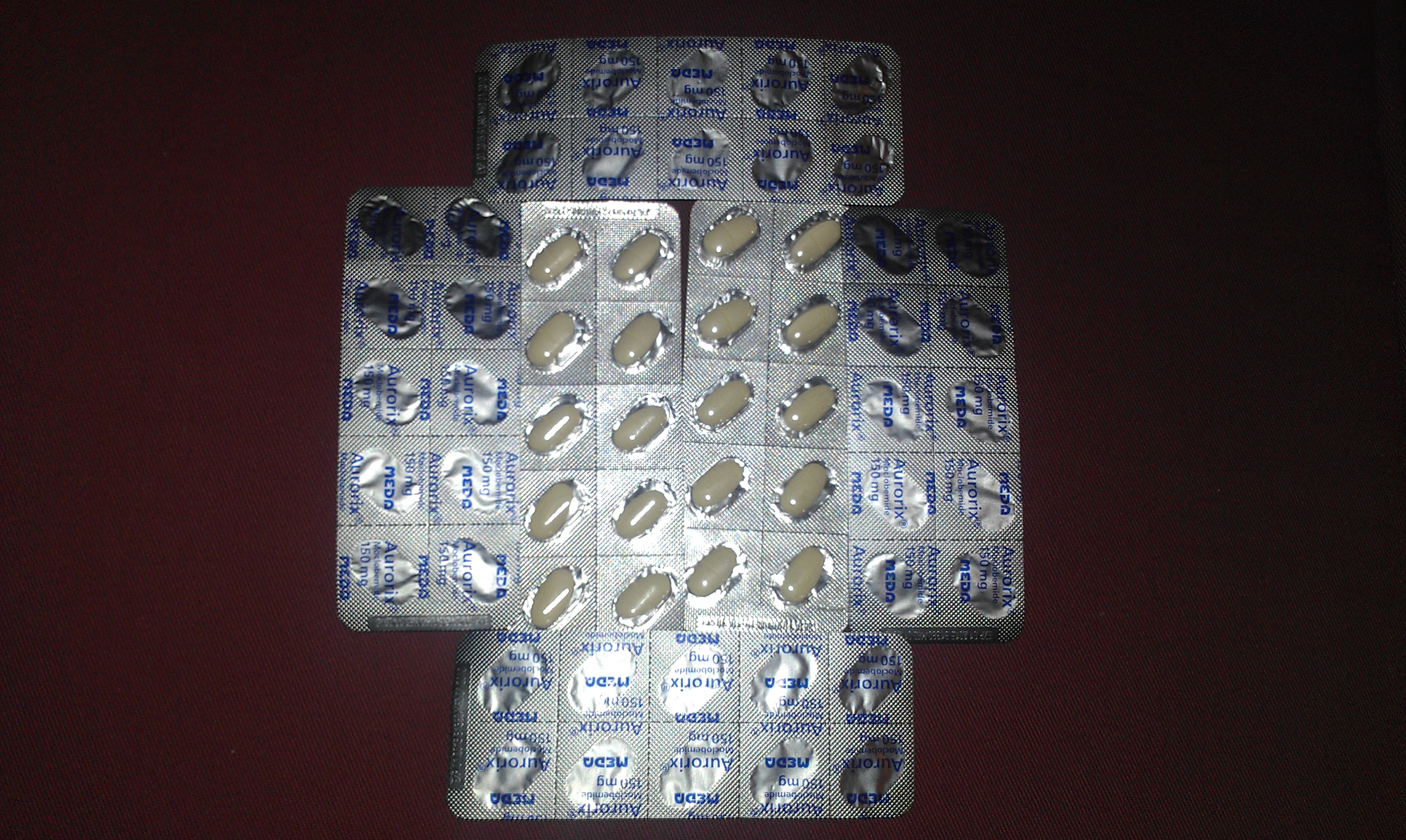 A picture of the pharmaceutical drug moclobemide, brand name Aurorix, which acts as a reversible MAOI.